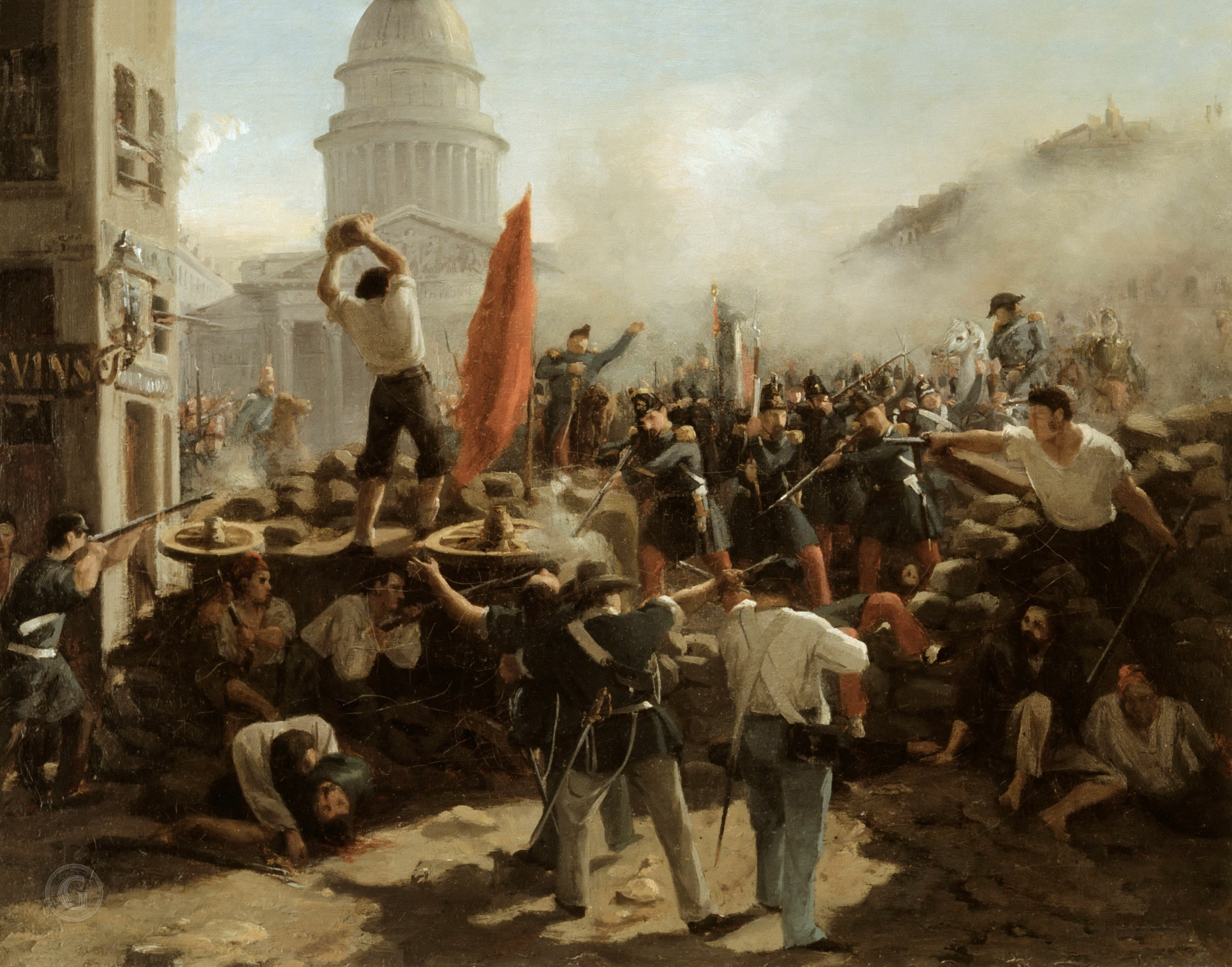 Painting of Battle at Soufflot barricades at Rue Soufflot on 24 June 1848